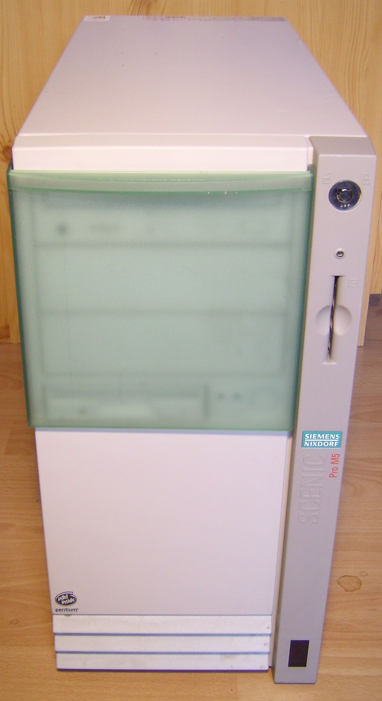 SNI Siemens-Nixdorf Scenic Pro M5 computer, built 1996, Pentium 1, 100 MHz